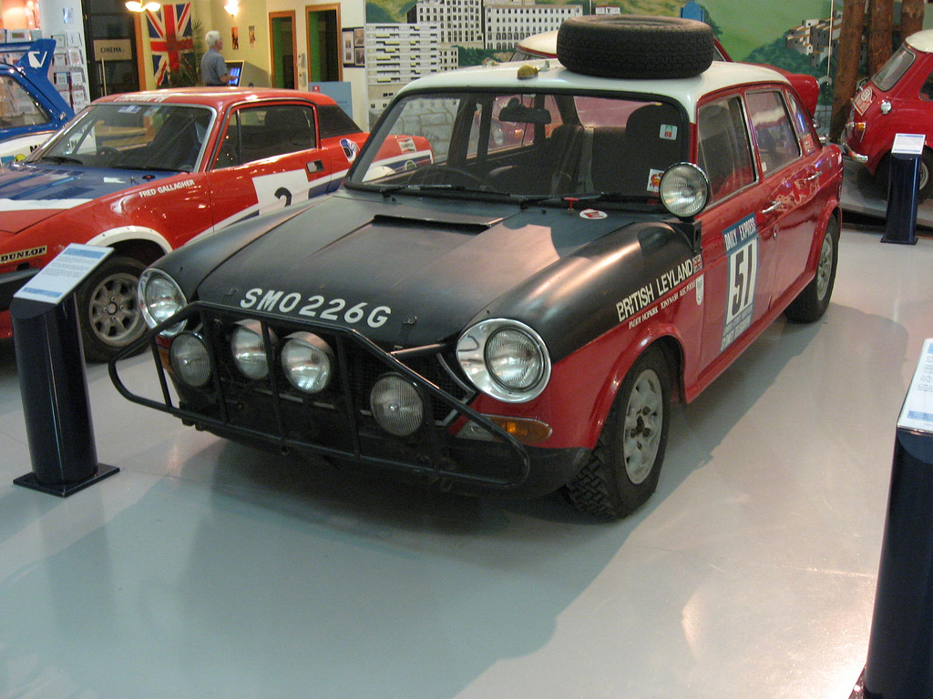 Austin landcrab rally car .